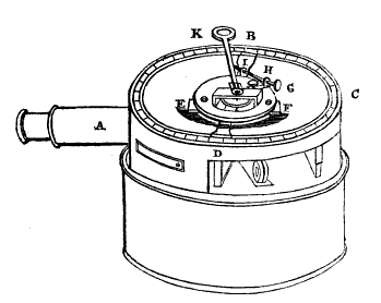 "Pocket box-circle" navigational instrument, invented by mathematician William Galbraith. From Arcana of Science (1838).